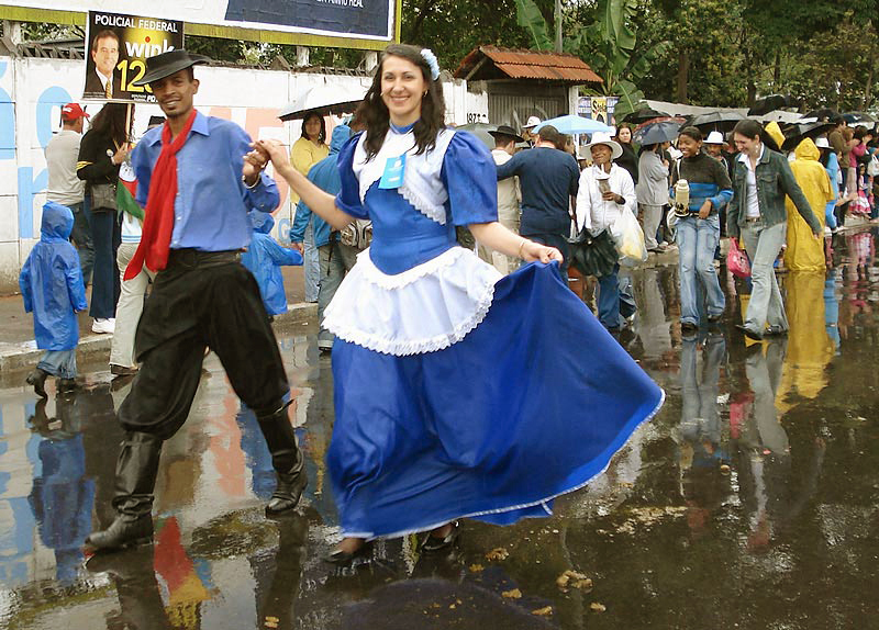 Brazilian gaucho with typical clothing on 2006 Farroupilha Parade, Porto Alegre, Brazil